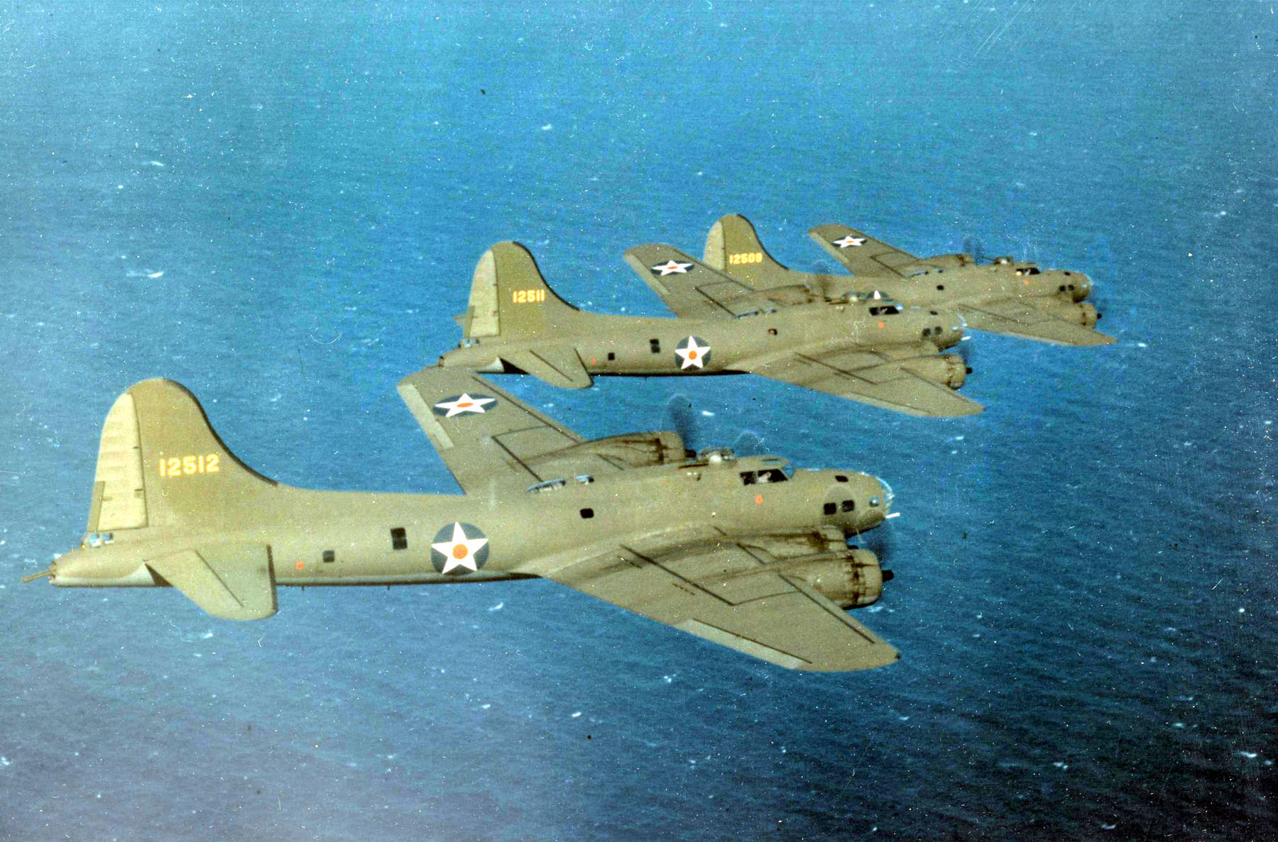 Three U.S. Army Air Force Boeing B-17E Flying Fortress bombers (s/n 41-2512, 41-2511 and 41-2509) in late 1941 or early 1942. Aircraft 41-2509 was wrecked in a landing accident at Hendricks Field, Florida (USA) on 16 May 1942, 41-2511 a day before. Hendricks Field was home of the Army Air Force Basic Training School at Sebring, Florida, where B-17 crews were trained.